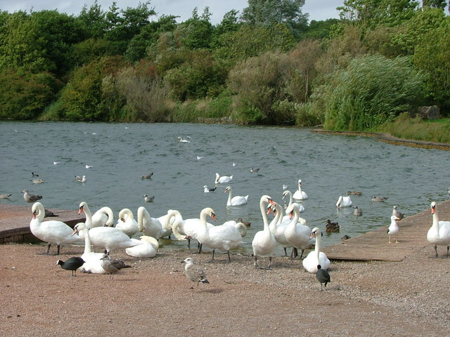 Cosmeston Lake water birds. Cosmeston Lakes Country Park had its origins with the advent of limestone quarrying in the early 1890s. The quarrying ceased in 1970. Springs flooded parts of the quarried area creating lakes. The quarry spoil areas were landscaped and together with the lakes form the main features of the park which includes over 100 hectares of woodland, grassland and wetlands.